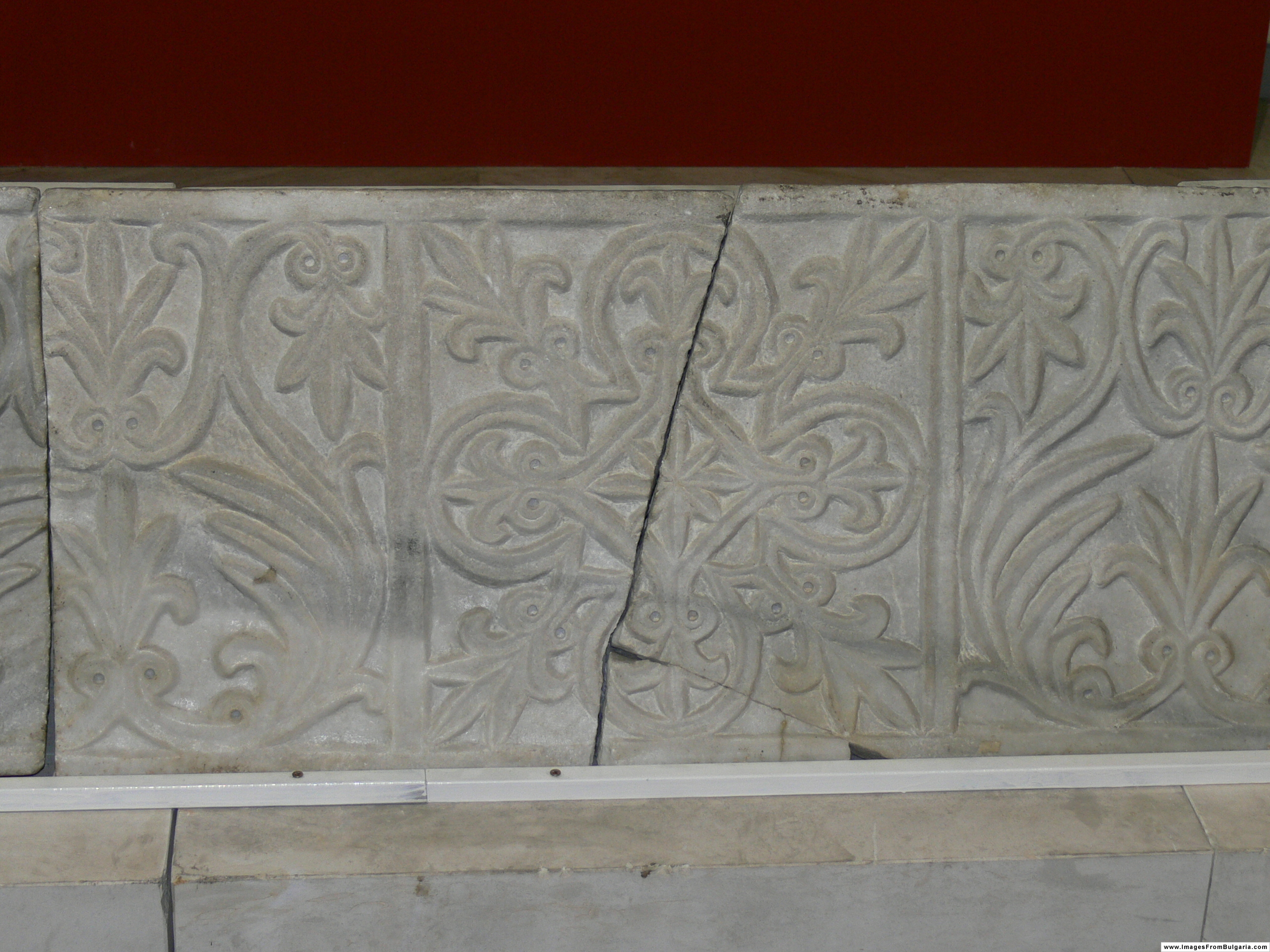 10th century cornice taken from the Round Church at Preslav and placed in the Bulgarian National Museum of History: identified through Five "Romanesque" Portals: Questions of Attribution and Ornament by Amy L. Vandersall, Professor of Art History, University of Colorado, Boulder, where it is attributed to Sculptures byzantines de Constantinople by André Grabar, 1963.